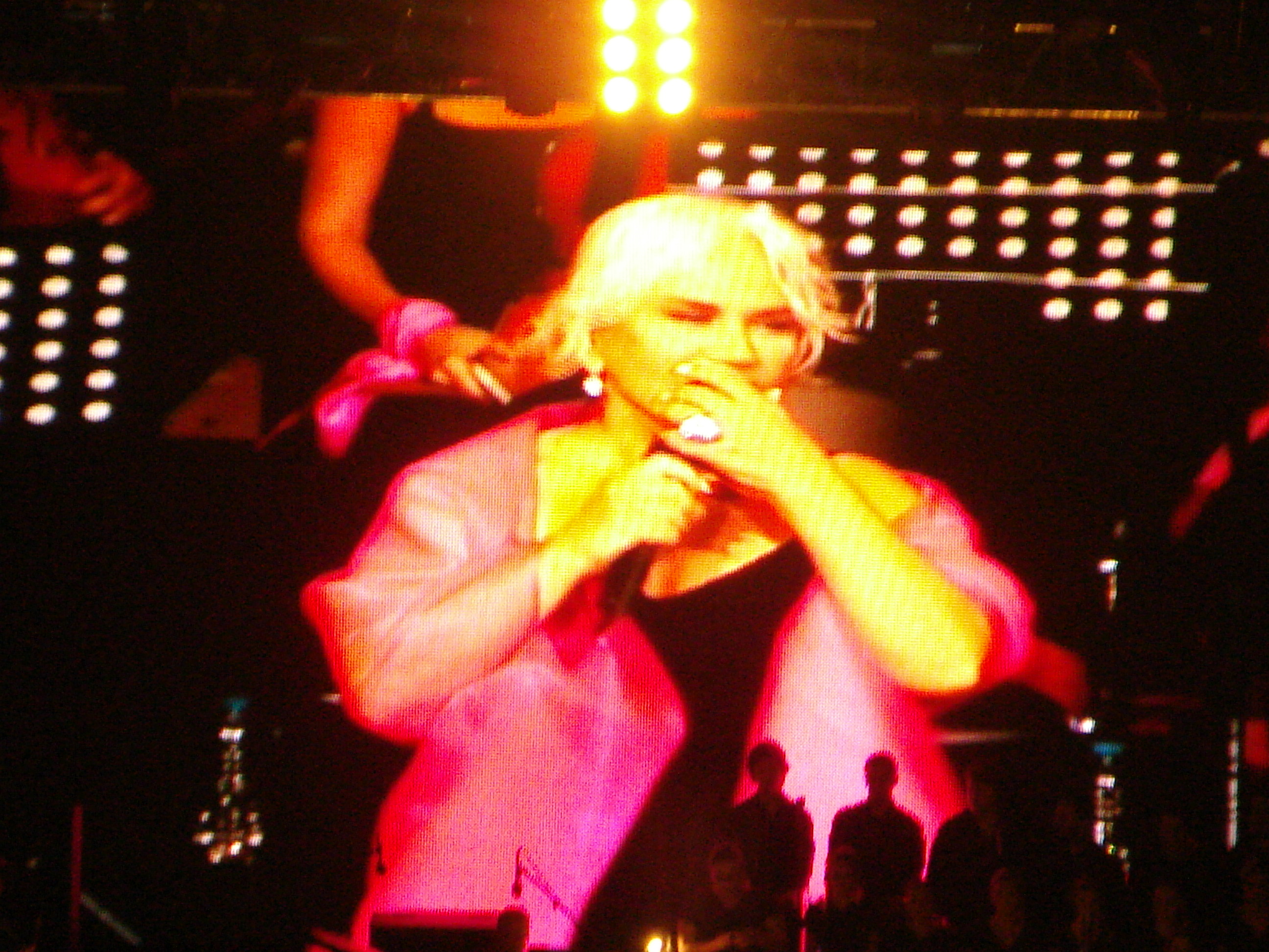 Sezen Aksu in a concert in Cemil Topuzlu Open-Air Theatre, İstanbul, 2011.